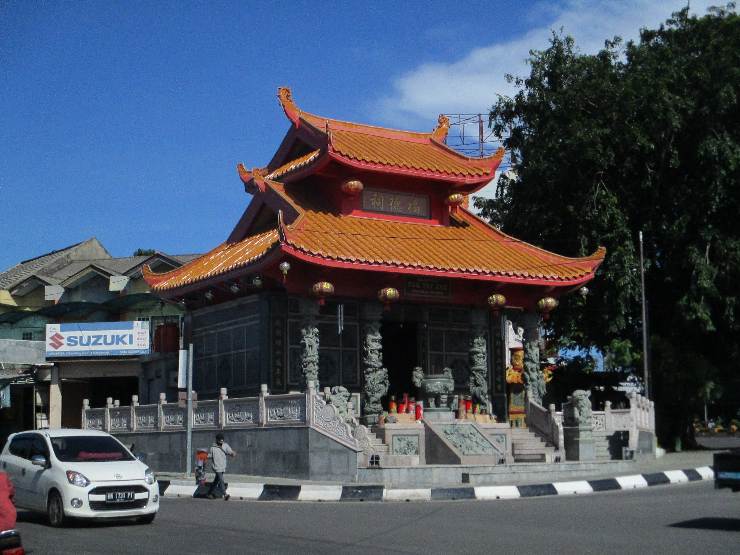 Shrine of Earth Deity at Semabung, Pangkalpinang, Bangka Island.